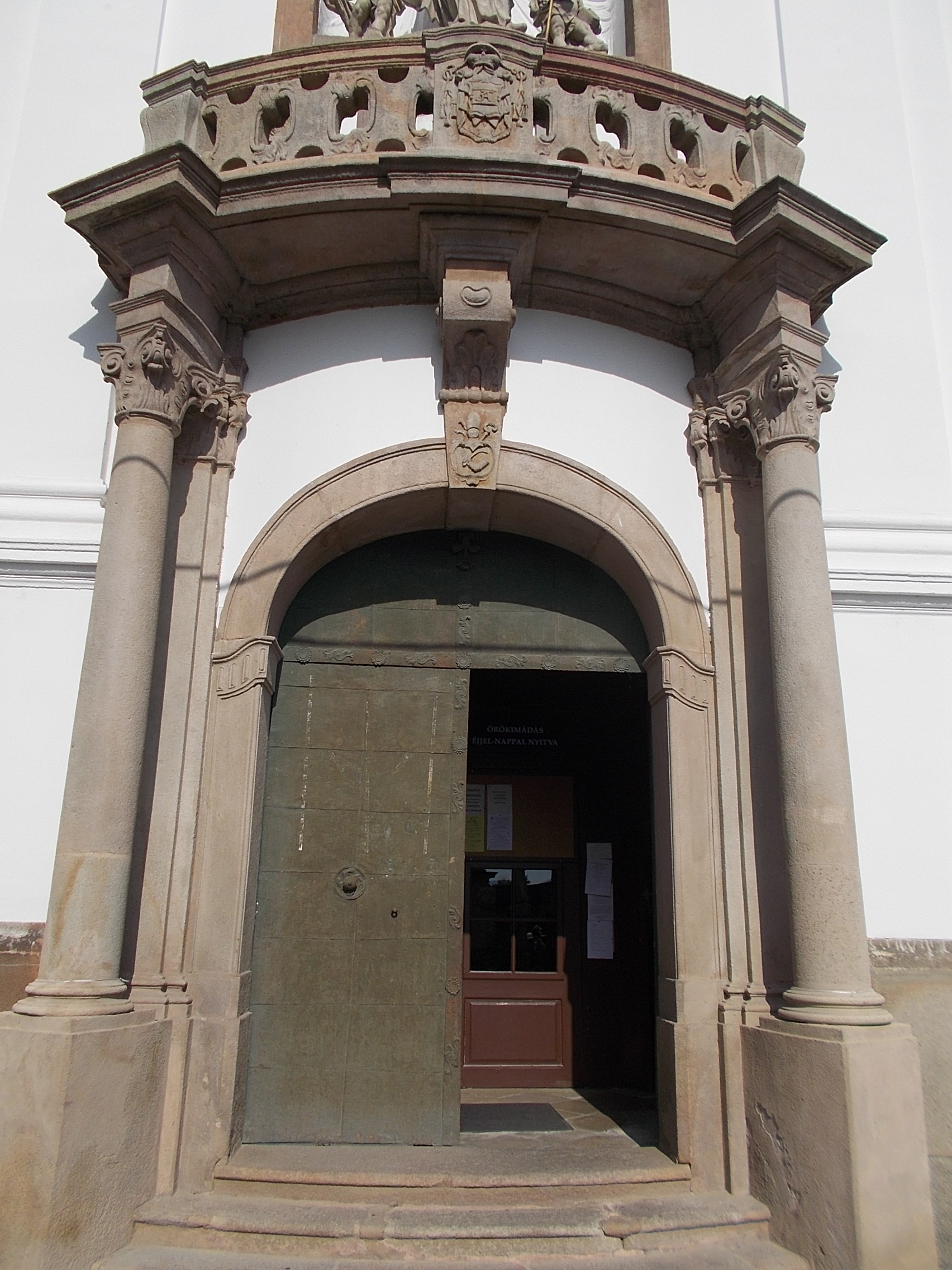 The building complex of the Piarist Church and monastery are historic buildings. The foundation stones of the church were laid down in 1725, and it was finished in 1745. Its original onion-shaped cupola was reconstructed according to German renaissance taste. Above the frontal balcony, the statue of Saint Joseph of Calasanz, the founder of the order can be found in a niche. The peculiarity of the church is its Venetian mirror altar. The monastery built next to the church hosts the Piarist noviciate and grammar school, which was originally built using the house of the grand provost, András Berkes. The ornamented gate of the original was retained during the reconstruction. - Szentháromság Square, Vác, Pest County, Hungary.